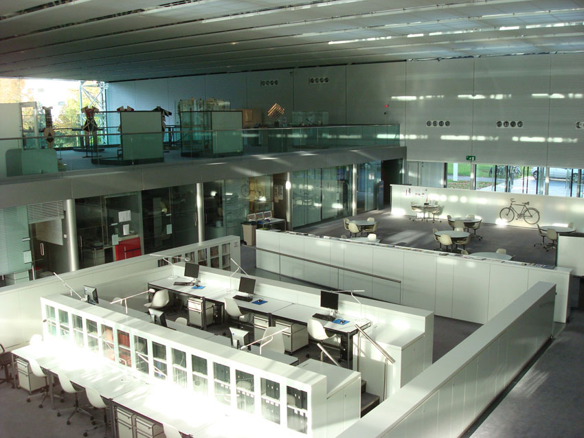 The interior of the School of World Art Studies & Museology at the University of East Anglia, UK. Student work area and faculty offices.